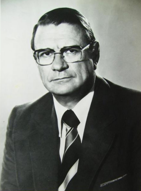 South African MP S.P. "Fanie" Botha